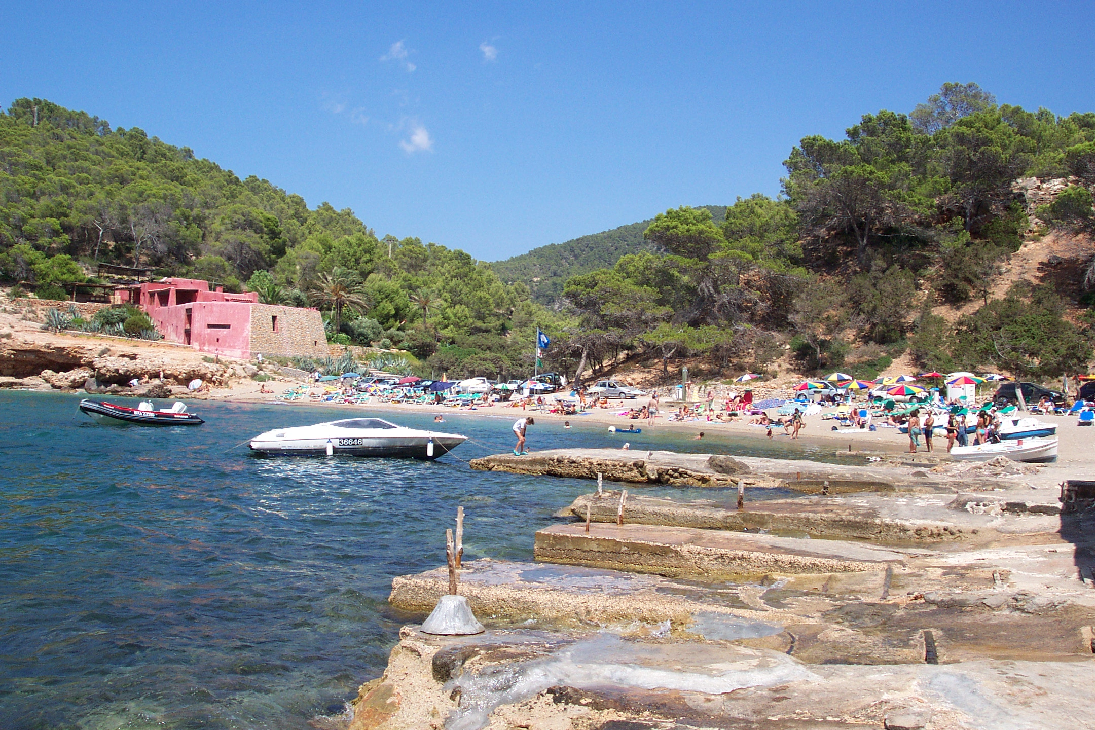 A view of Cala Salada, near Sant Antoni